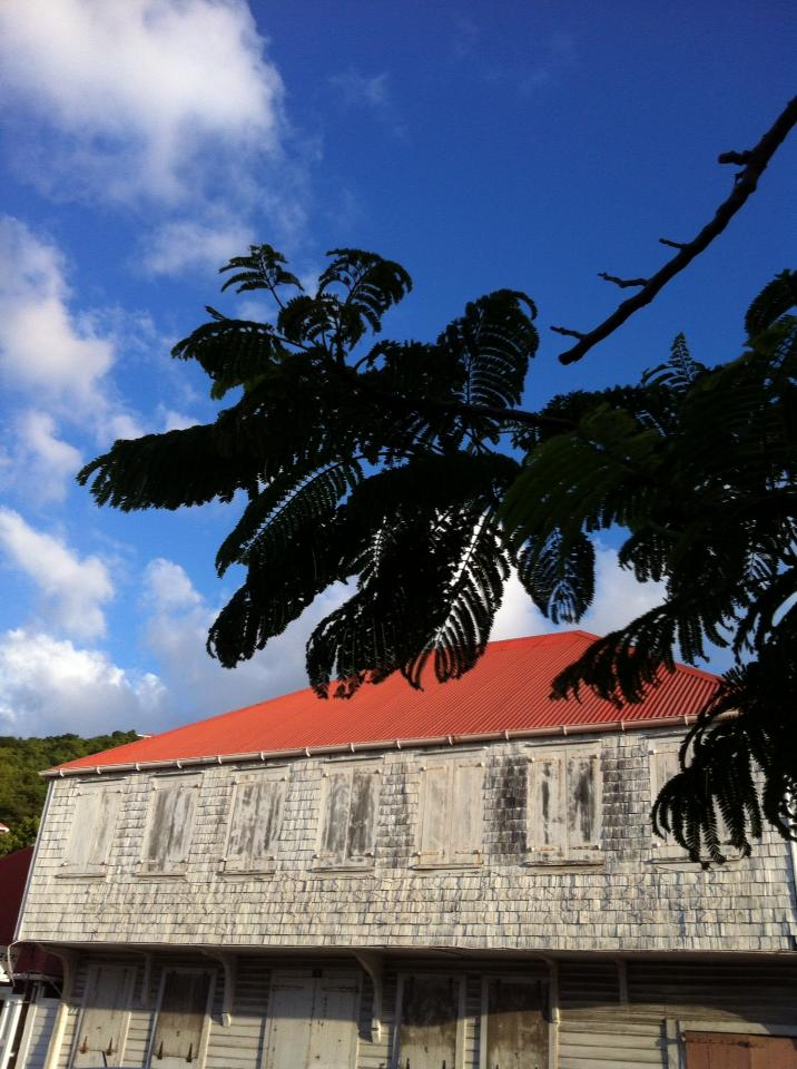 Typical Swedish building in Gustavia (capital of Saint-Barthelemy)